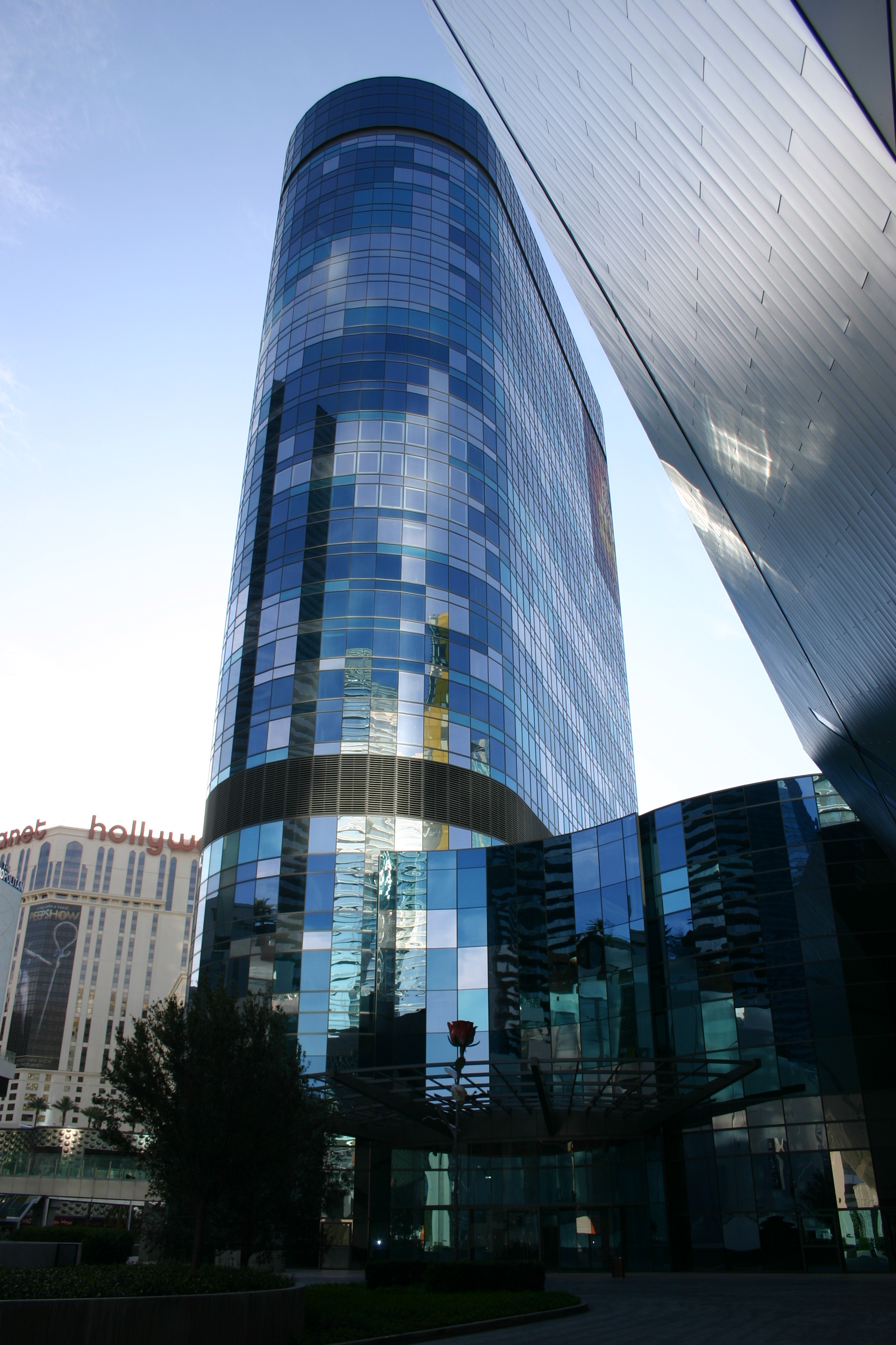 Photo of the west side of the Harmon Hotel in Las Vegas, Nevada